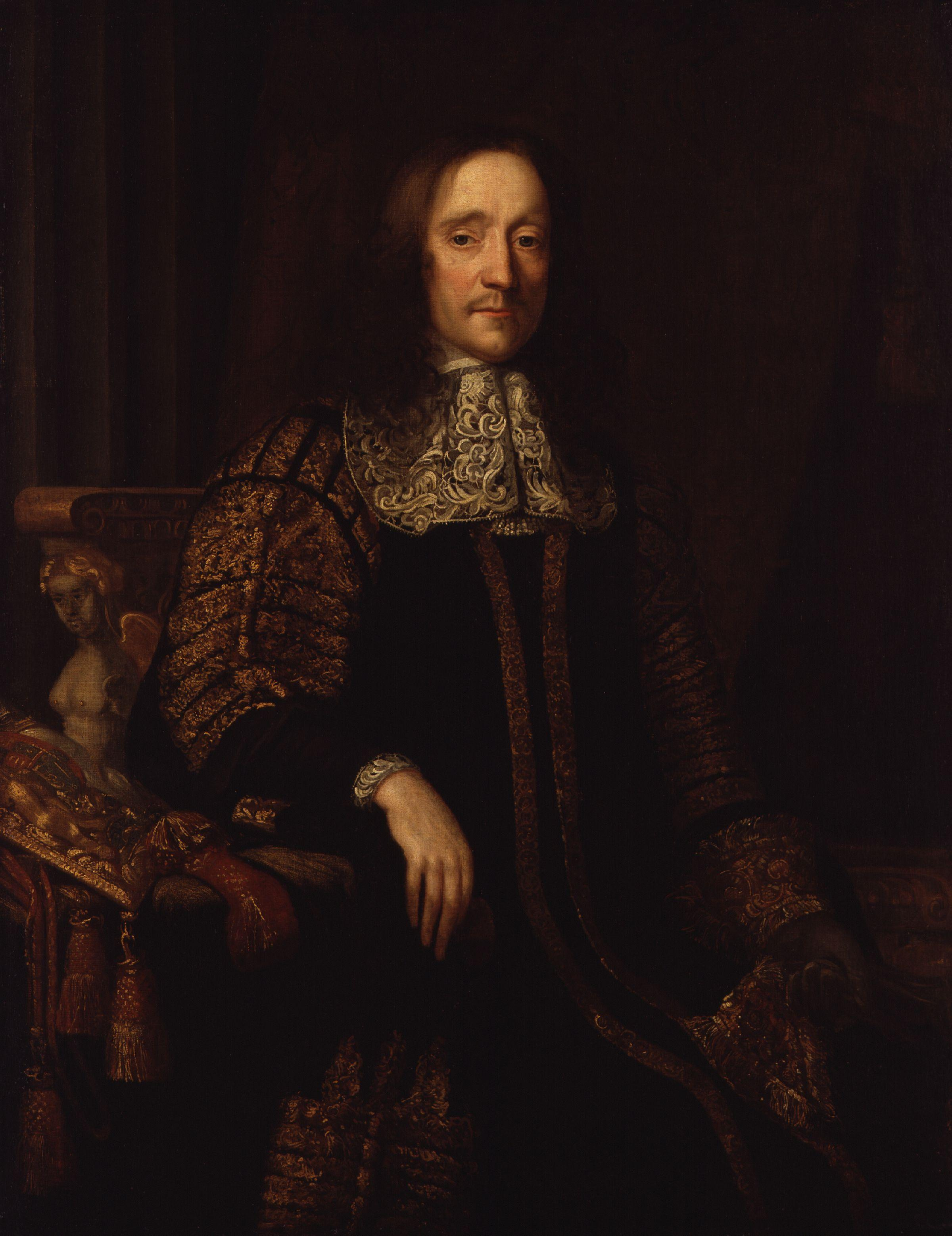 All images in this batch have been confirmed as author died before 1939 according to the official death date listed by the NPG. This painting was given to the National Portrait Gallery in 1951. See the source website for additional information.